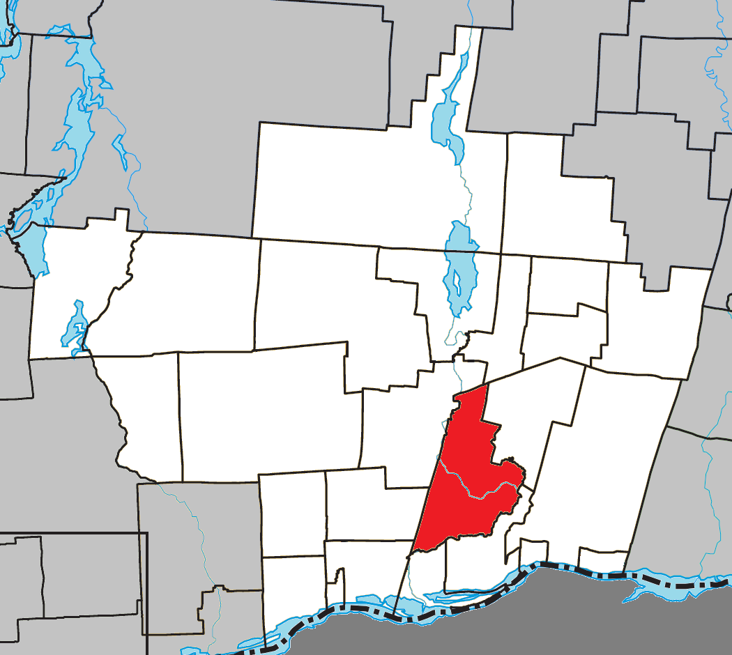 Location of Saint-André-Avellin, Quebec within Papineau Regional County Municipality.